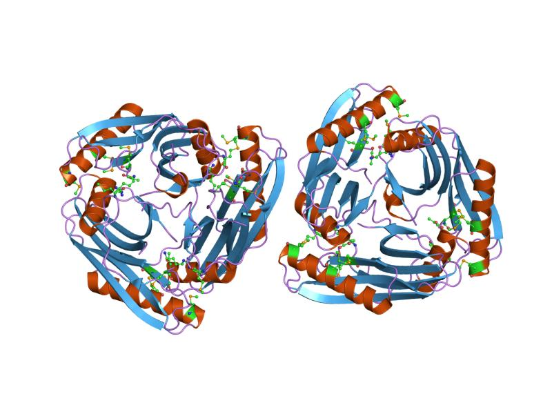 Cartoon representation of the molecular structure of protein registered with 1mt1 code.